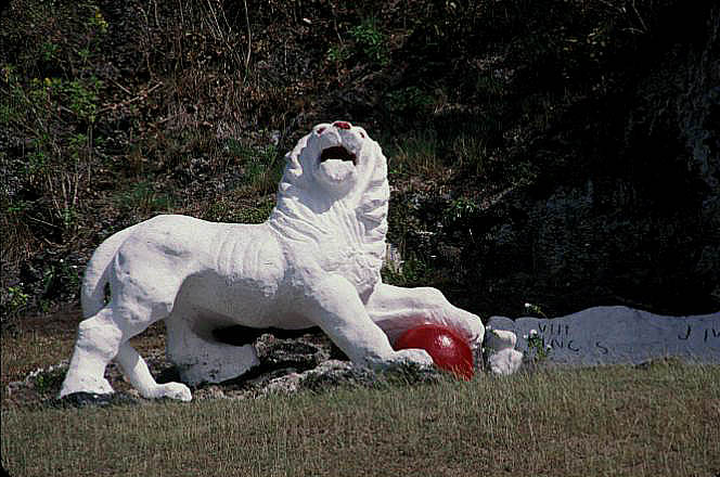 CAPTAIN HENRY WILKINSON CARVED A LION FROM A SINGLE BLOCK OF STONE AND THE LION'S PAW RESTS ON AN ORB, THE SYMBOL OF THE BRITISH EMPIRE. A LATIN INSCRIPTION FROM THE BIBLE READS "HE SHALL HAVE DOMINION ALSO FROM SEA TO SEA, AND FROM THE RIVER UNTO THE ENDS OF THE EARTH.